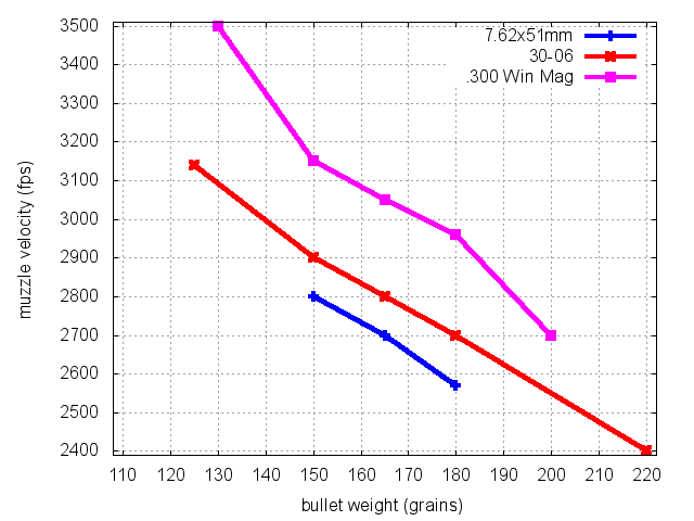 7.62x51mm NATO, 30-06, and .300 Win Mag Velocity Comparison